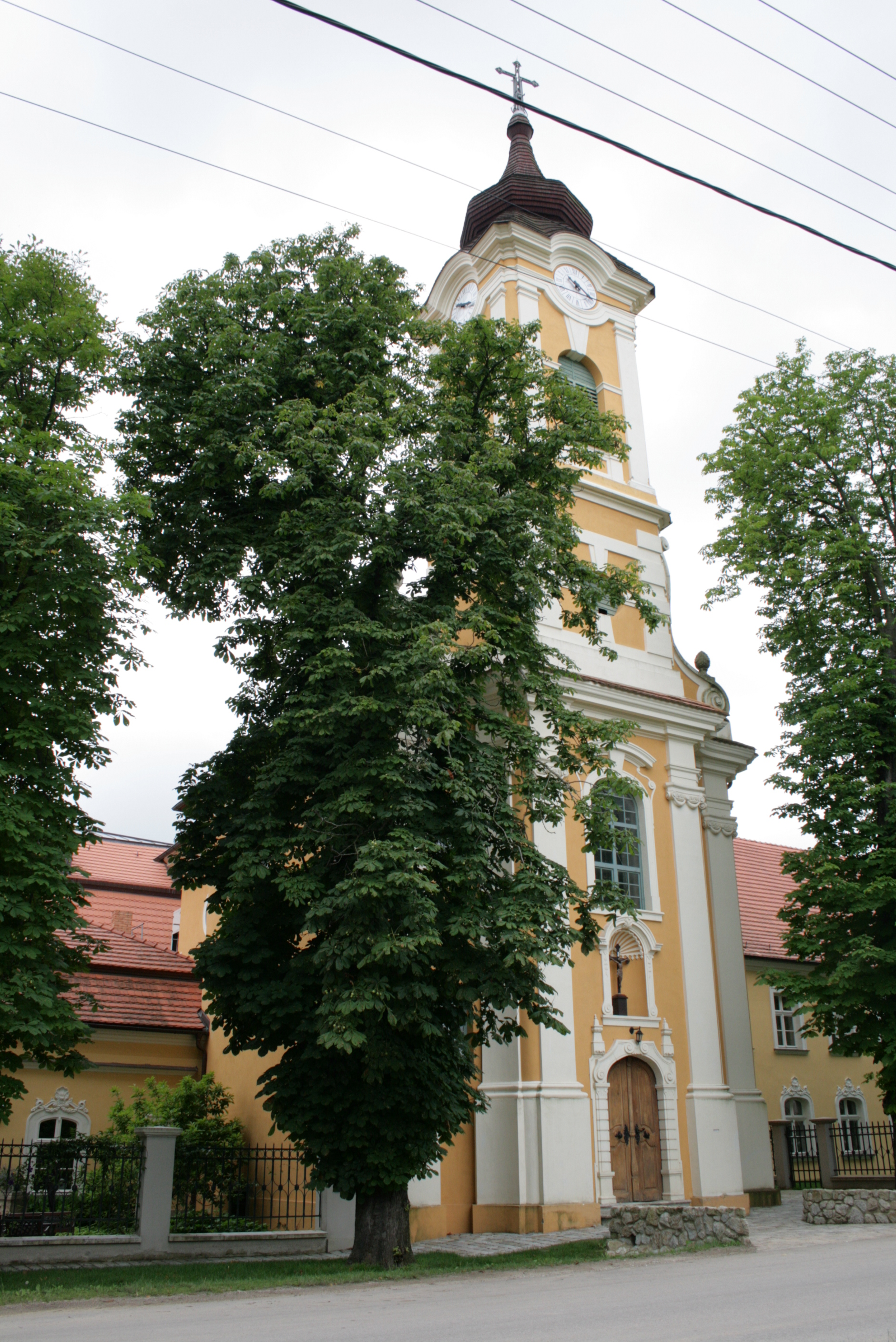 Church in Belá (Nové Zámky district, Slovak Republic).